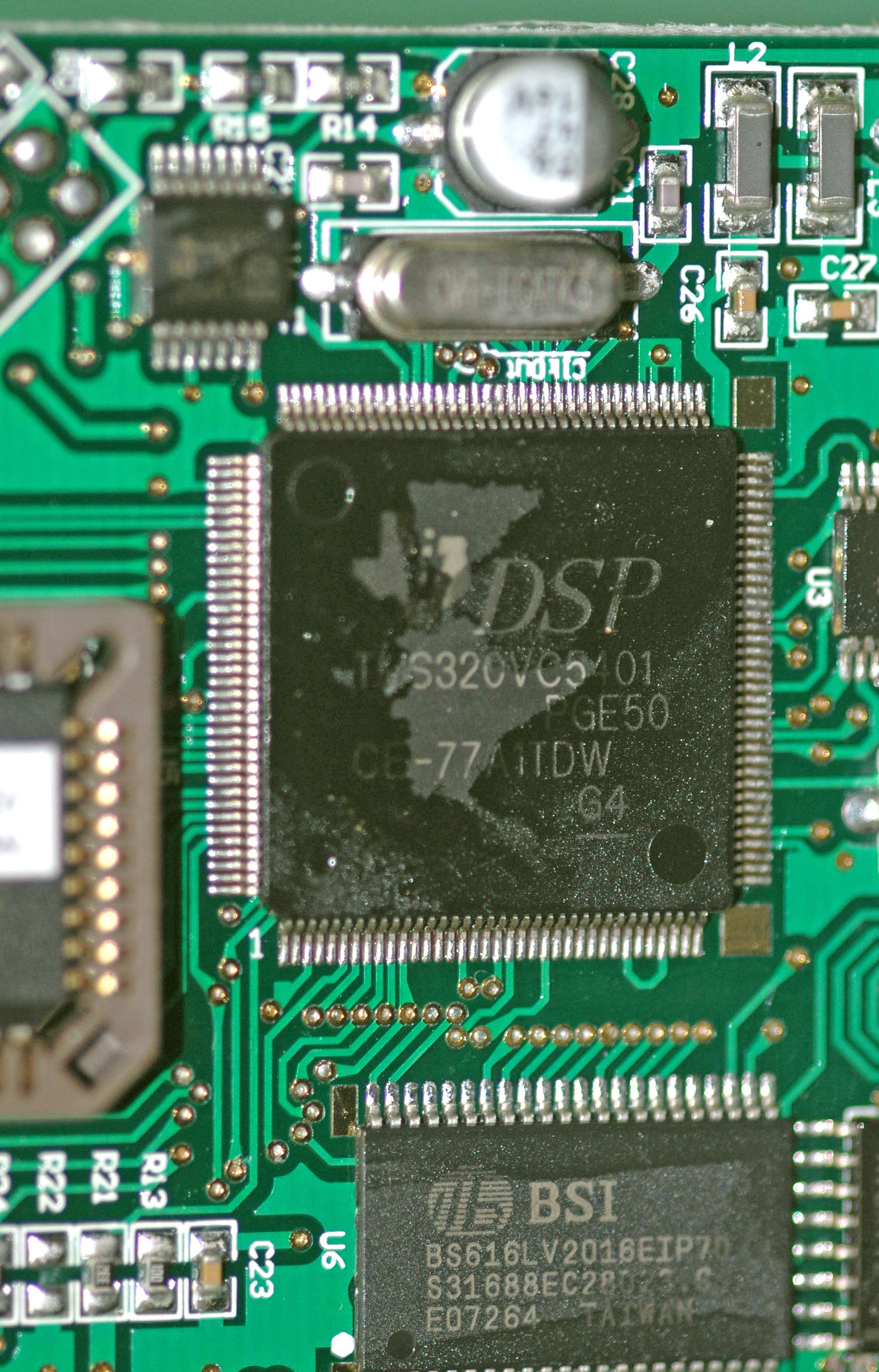 Digital signal processor chip found on a guitar effects processor.